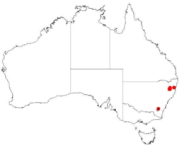 Bertya ingramii Occurrence data downloaded on 22 June 2019 from Australasian Virtual Herbarium using